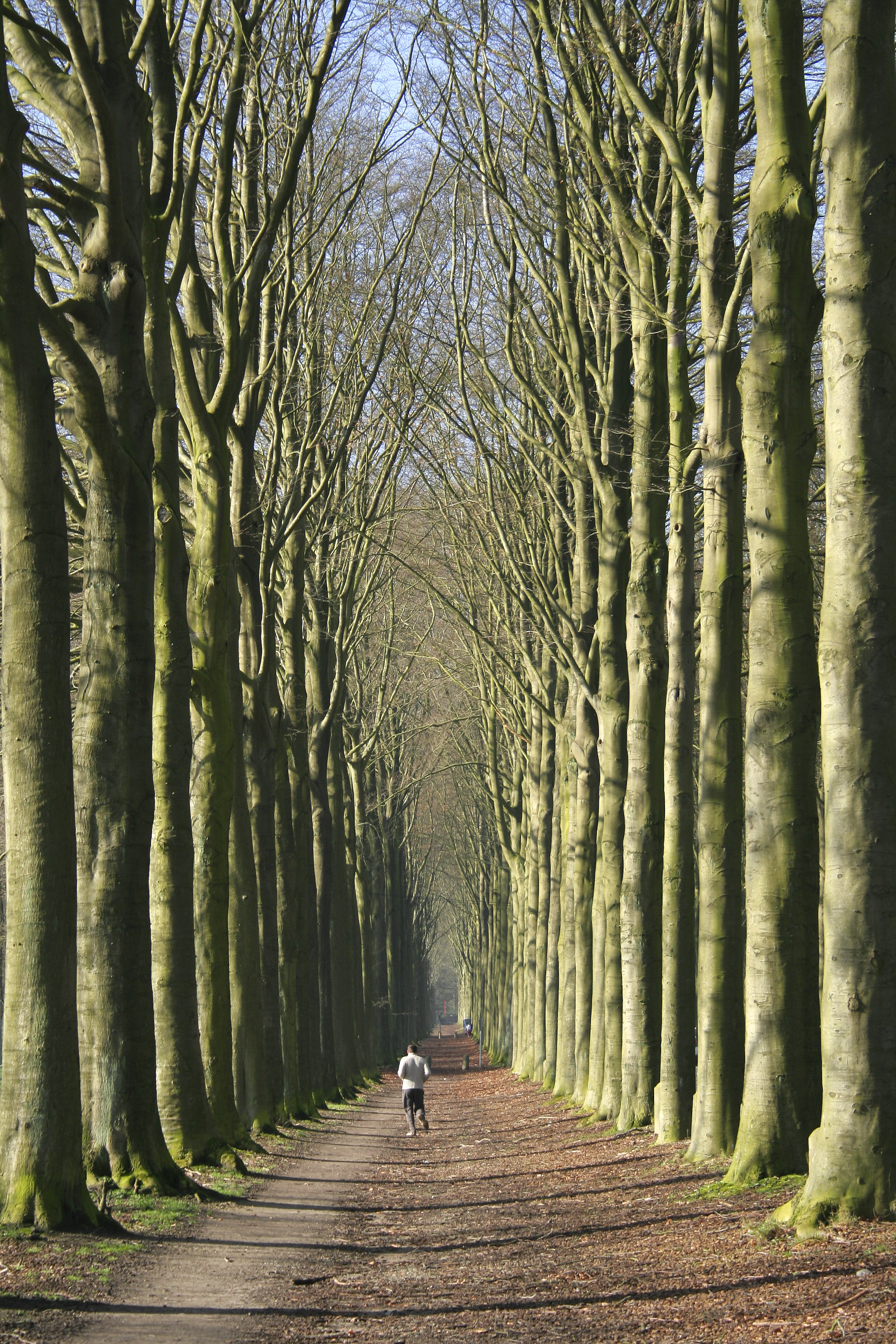 European beech